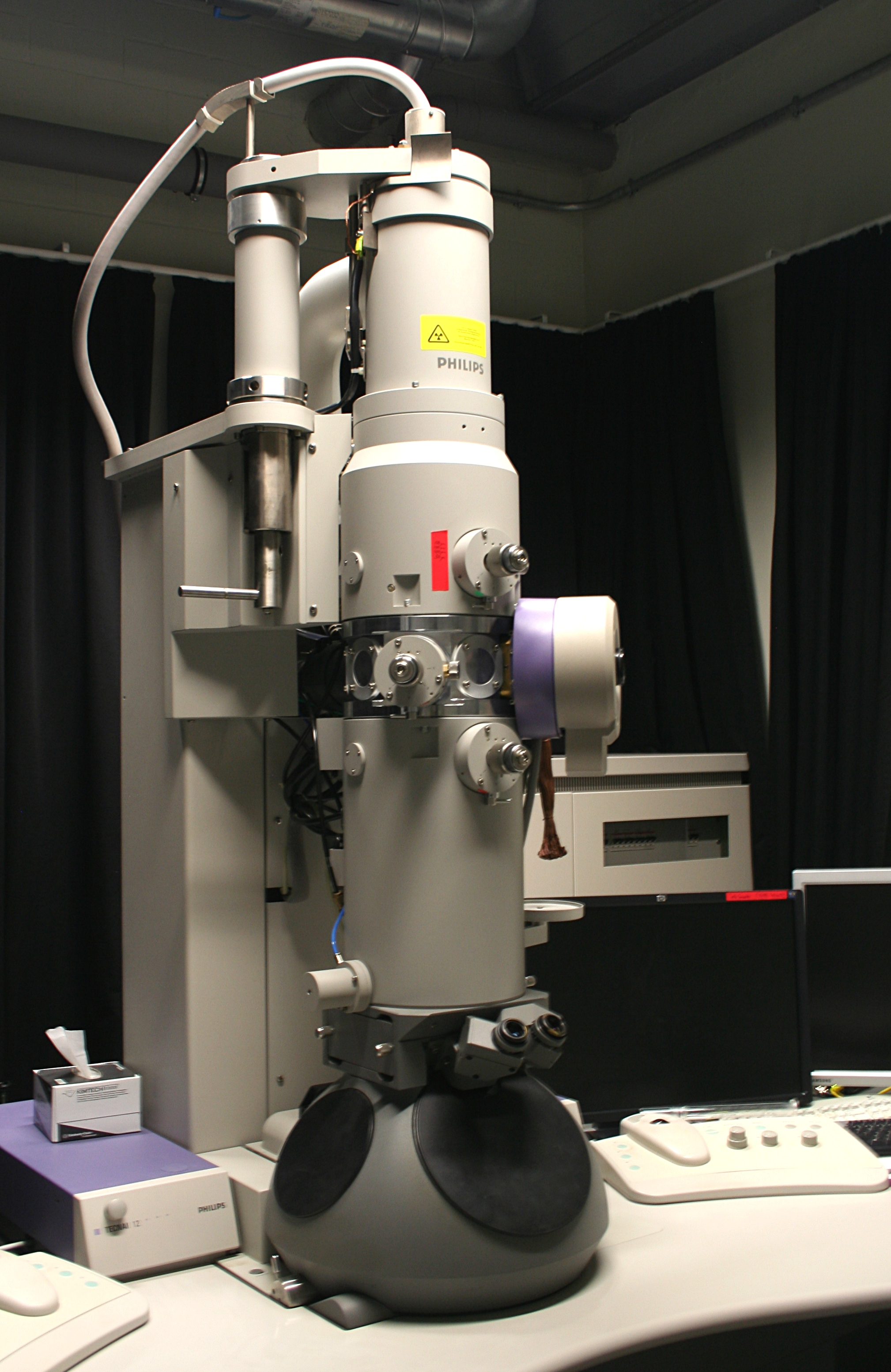 Transmission electron microscope Tecnai12BT in MPI-CBG.